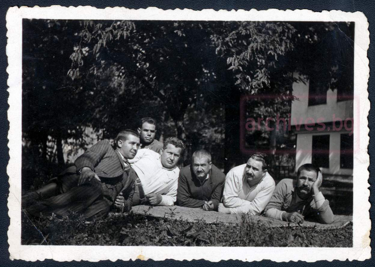 Members of IMRO United